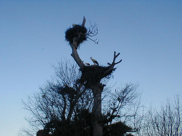 nests of stork (Roman ruins of Chellah, Rabat, Morocco) Walon: ni d' ciwagne å Marok (portrait saetchî pa L. Mahin).